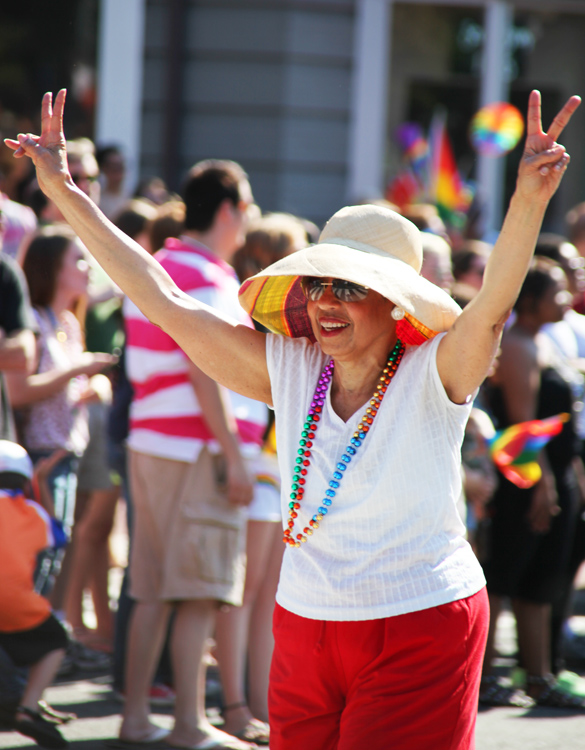 Eleanor Holmes Norton, D.C.'s Delegate to the U.S. Congress, marches in the parade in her sun hat. At the Capital Pride parade near Dupont Circle in Washington, D.C., in the United States on June 9, 2012.